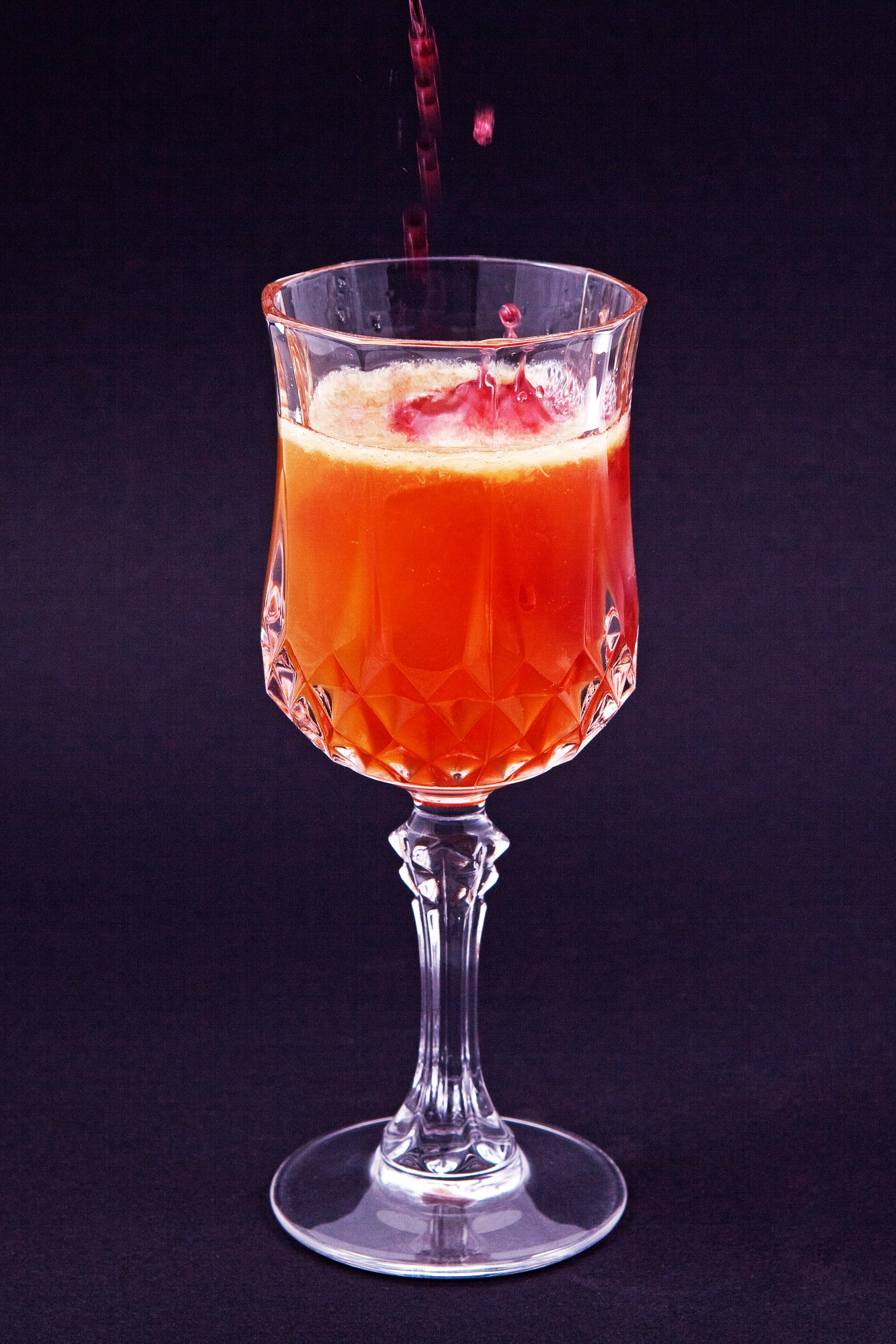 a New York Sour Cocktail that is being floated with Red Wine.